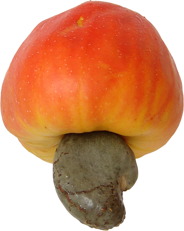 A cashew fruit and accessory fruit in the town of Prainha near Fortaleza, Ceará, Brazil.